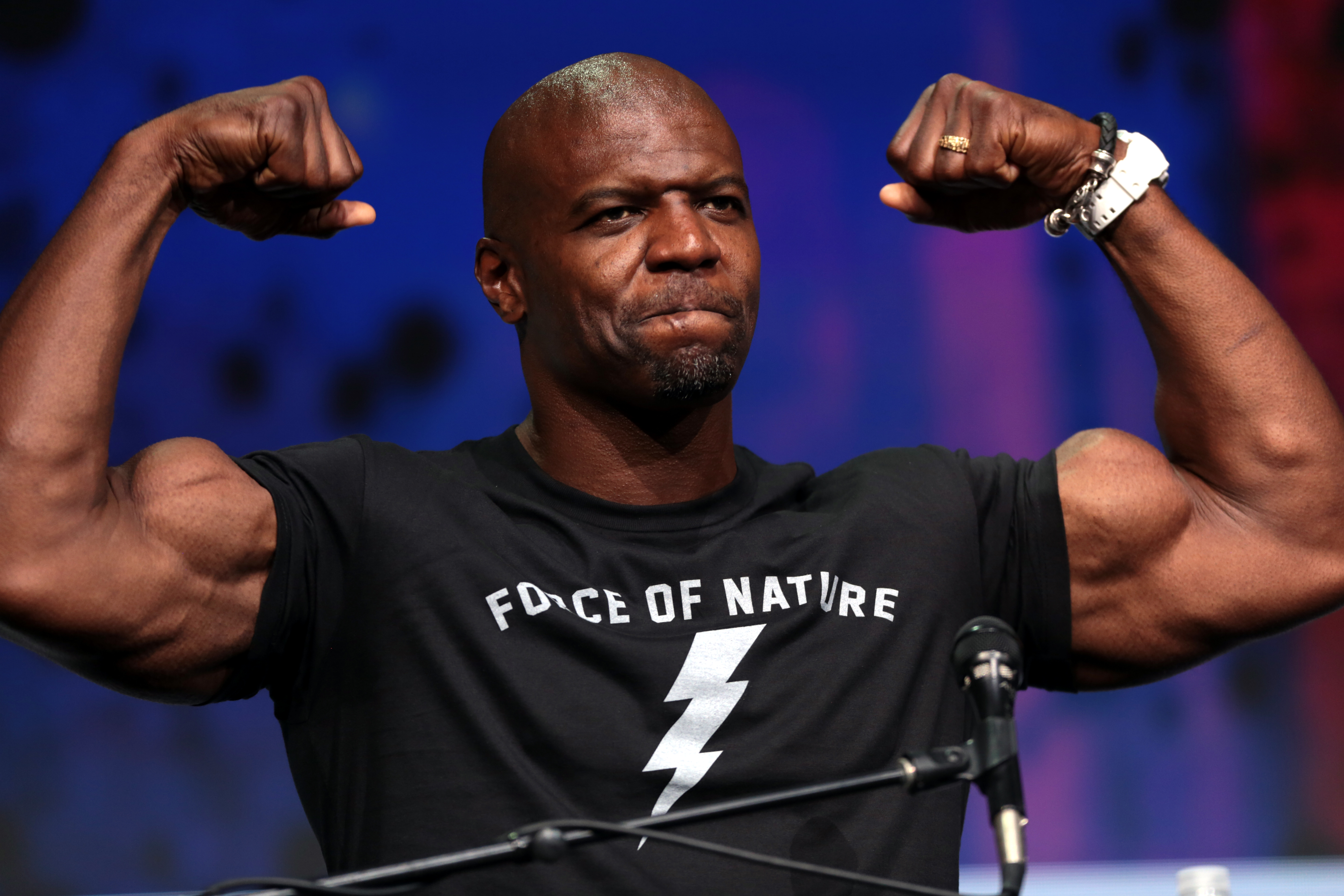 Terry Crews speaking at the 2017 San Diego Comic Con International, for "Death Note", at the San Diego Convention Center in San Diego, California.